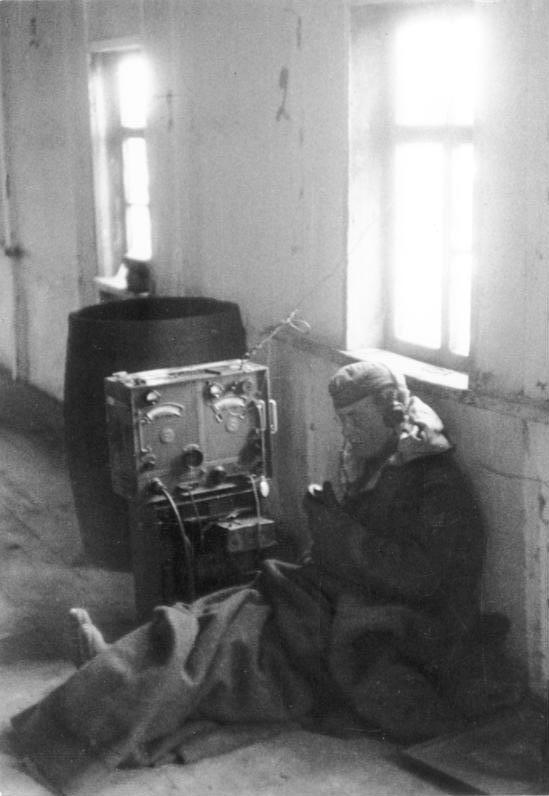 Information added by Wikimedia users.Torn. Fu. b (or modification)